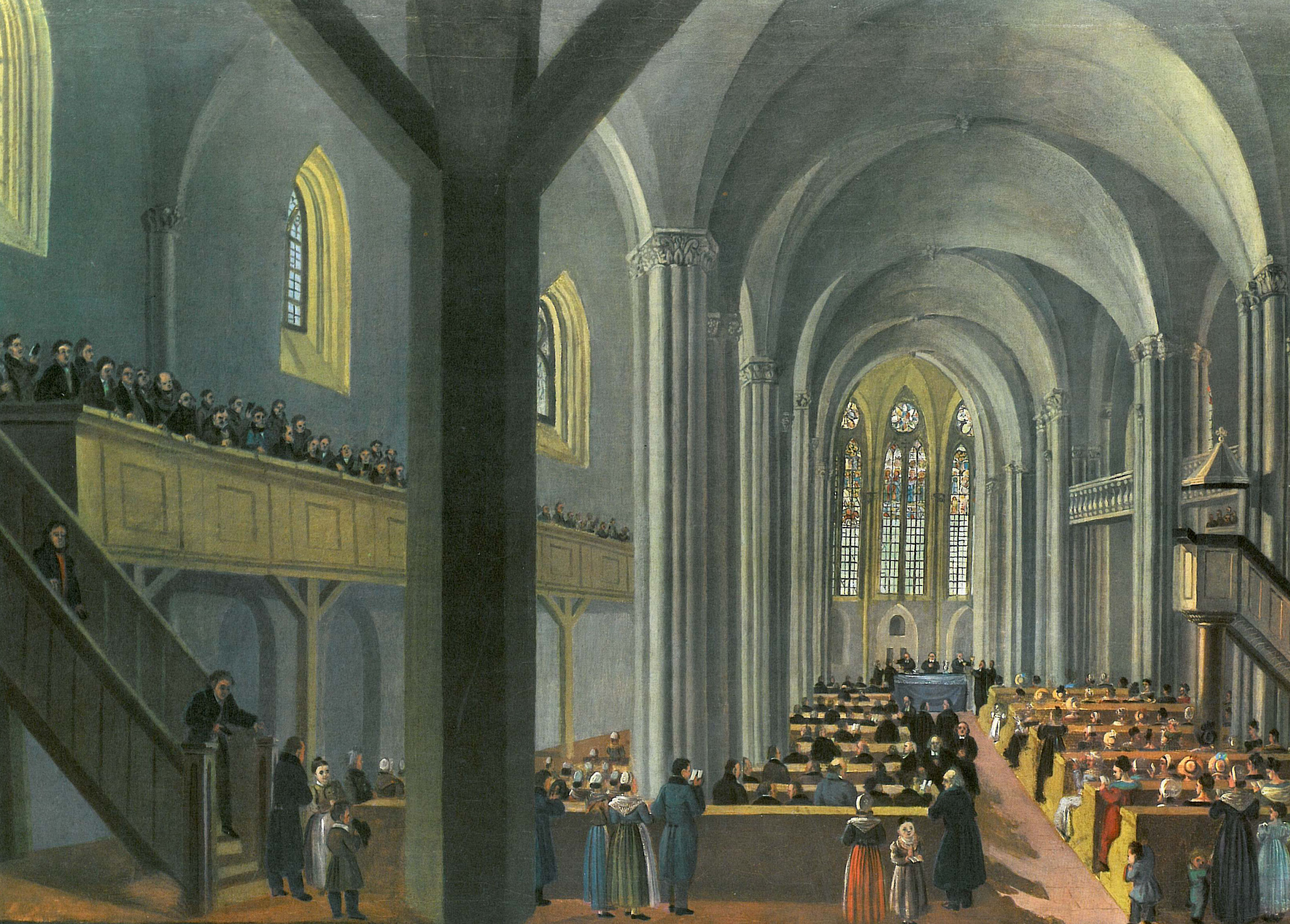 history of the protestant church in Kaiserslautern, Germany